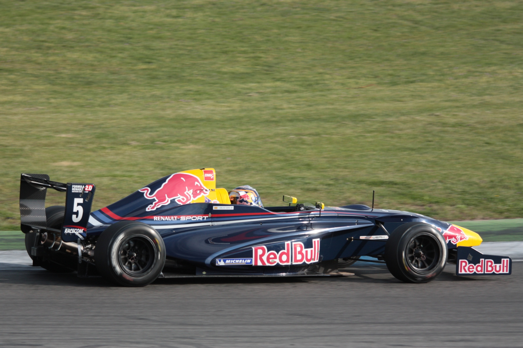 Carlos Sainz Jr. driving a Barazi-Epislon FR2.0 at the first race of NEC Formula Renault 2.0 at "Preis der Stadt Stuttgart" 2011